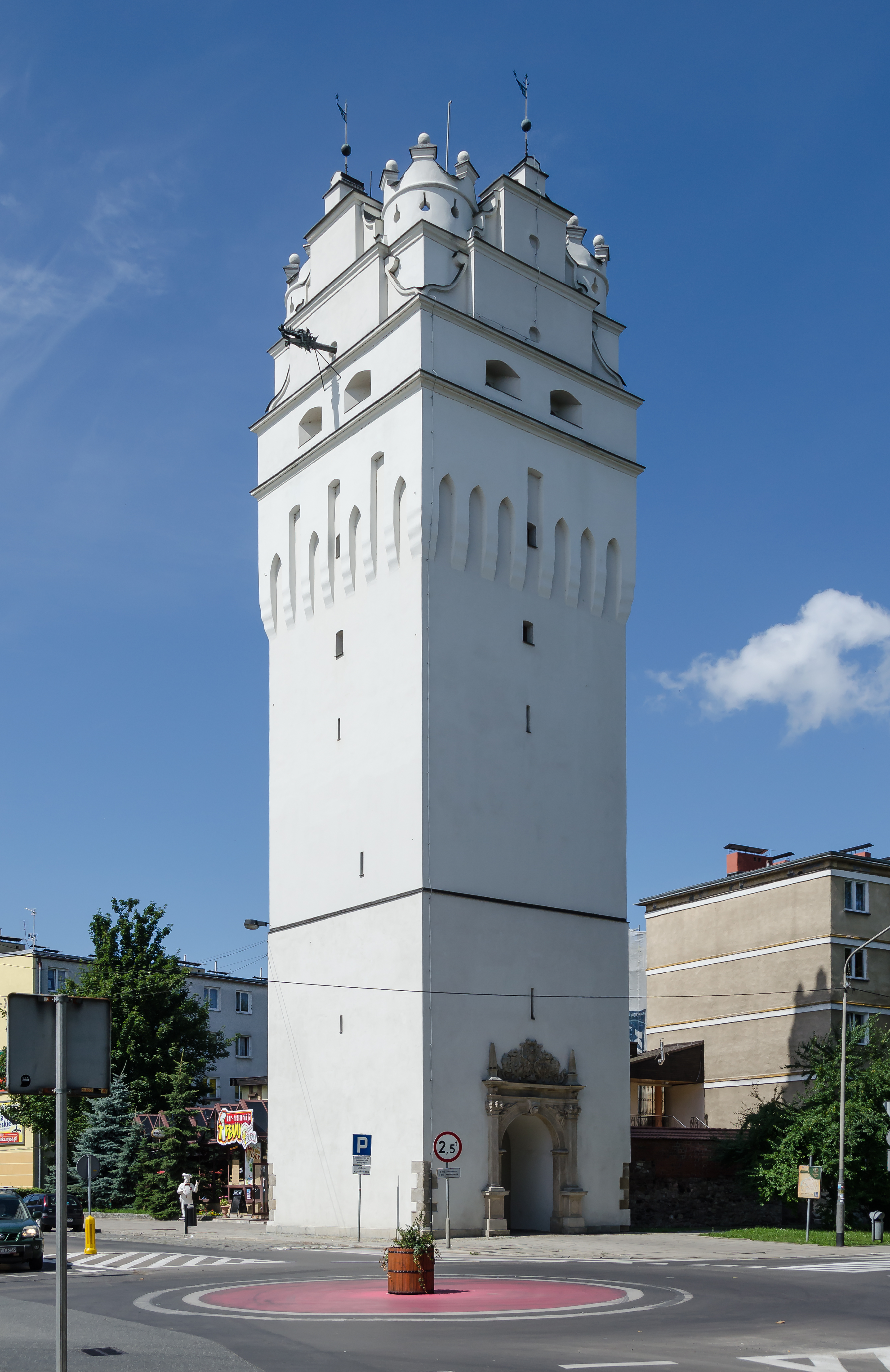 Wrocławska Gate in Nysa Ta fotografia przedstawia zabytek wpisany do rejestru zabytków pod numerem ID 611470